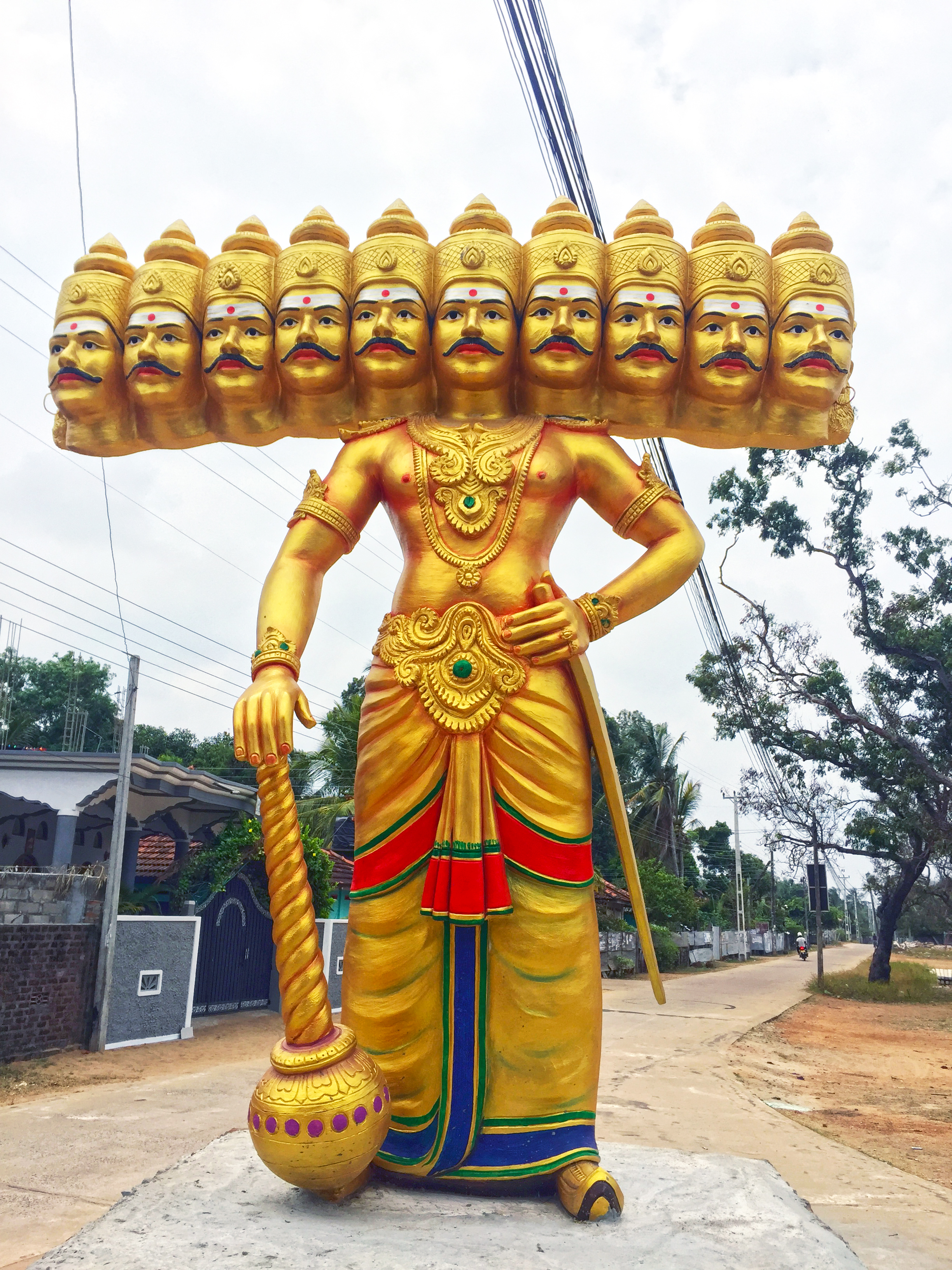 Ravana is a great scholar, a capable ruler, a player of the veena and a devoted follower of Shiva, and he has his apologists and staunch devotees within the Hindu traditions